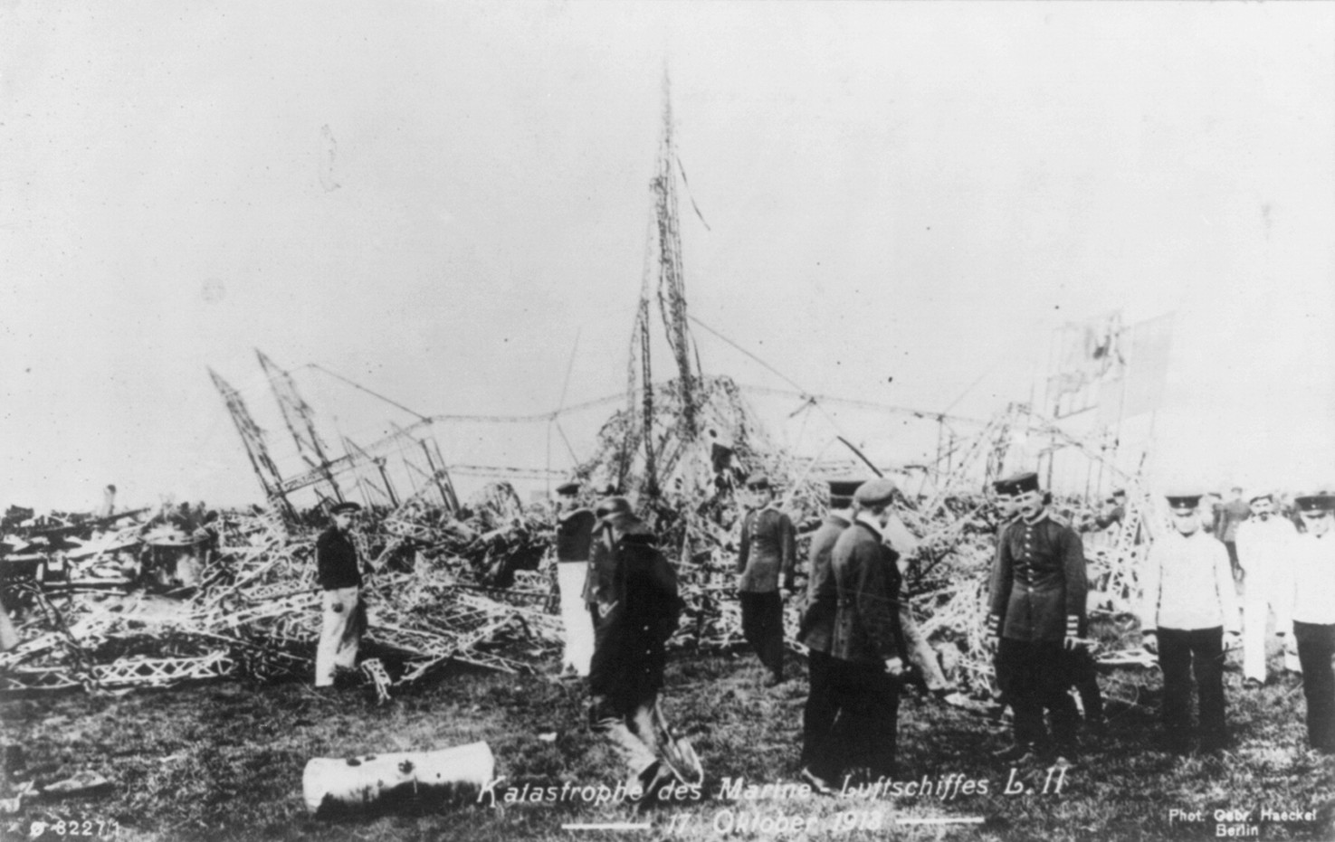 Wreck of the German Imperial Navy Zeppelin L.2 (LZ 18), which crashed on 17 October 1913 at Berlin-Johannisthal.